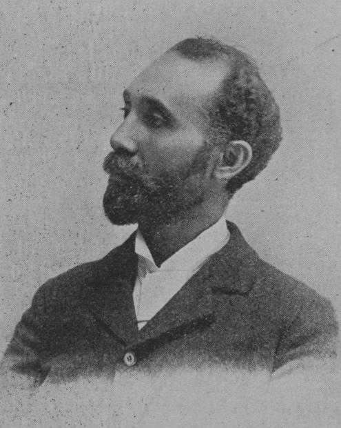 Photo of Barnett from 1900.